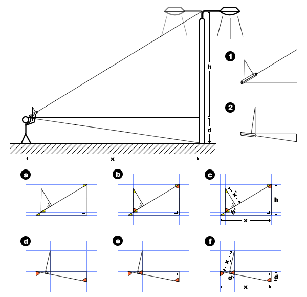 Diagram of the geometry involved in a scale hypsometer, illustrating how it works.